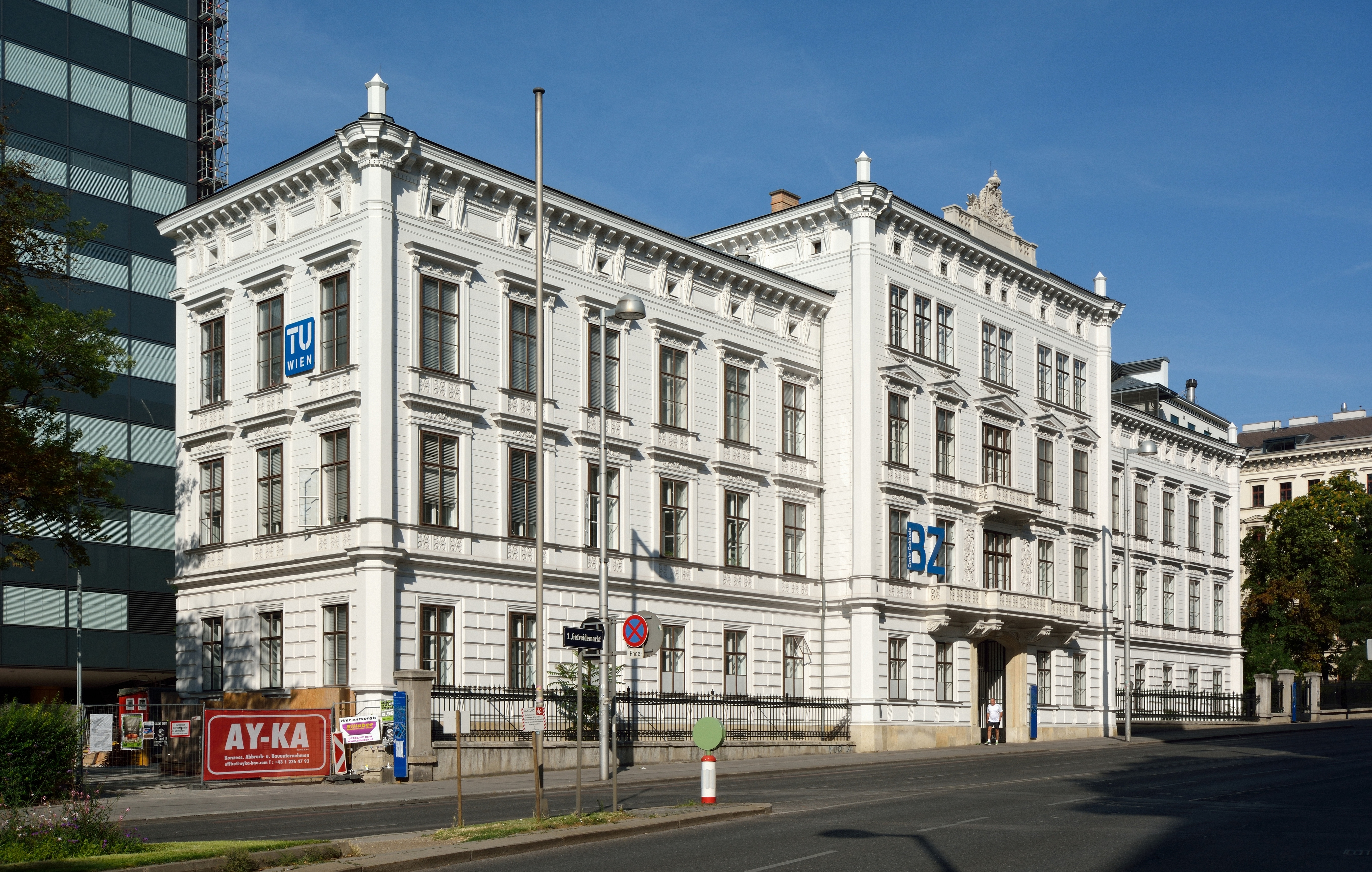 Former Geniedirektion, institute building of Vienna University of Technology, Getreidemarkt 9, 6th district of Vienna